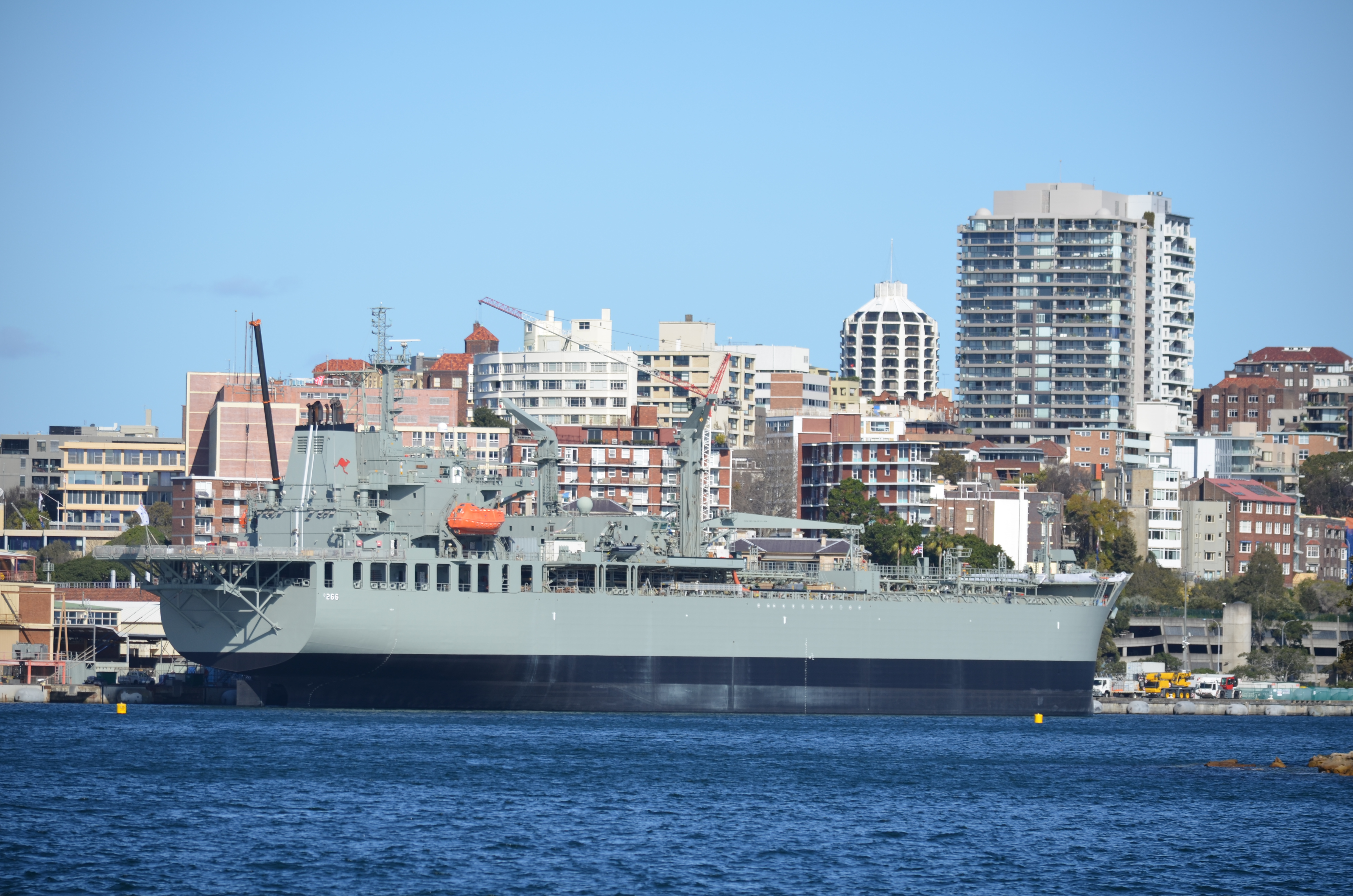 HMAS Sirius berthed at Fleet Base East in 2014